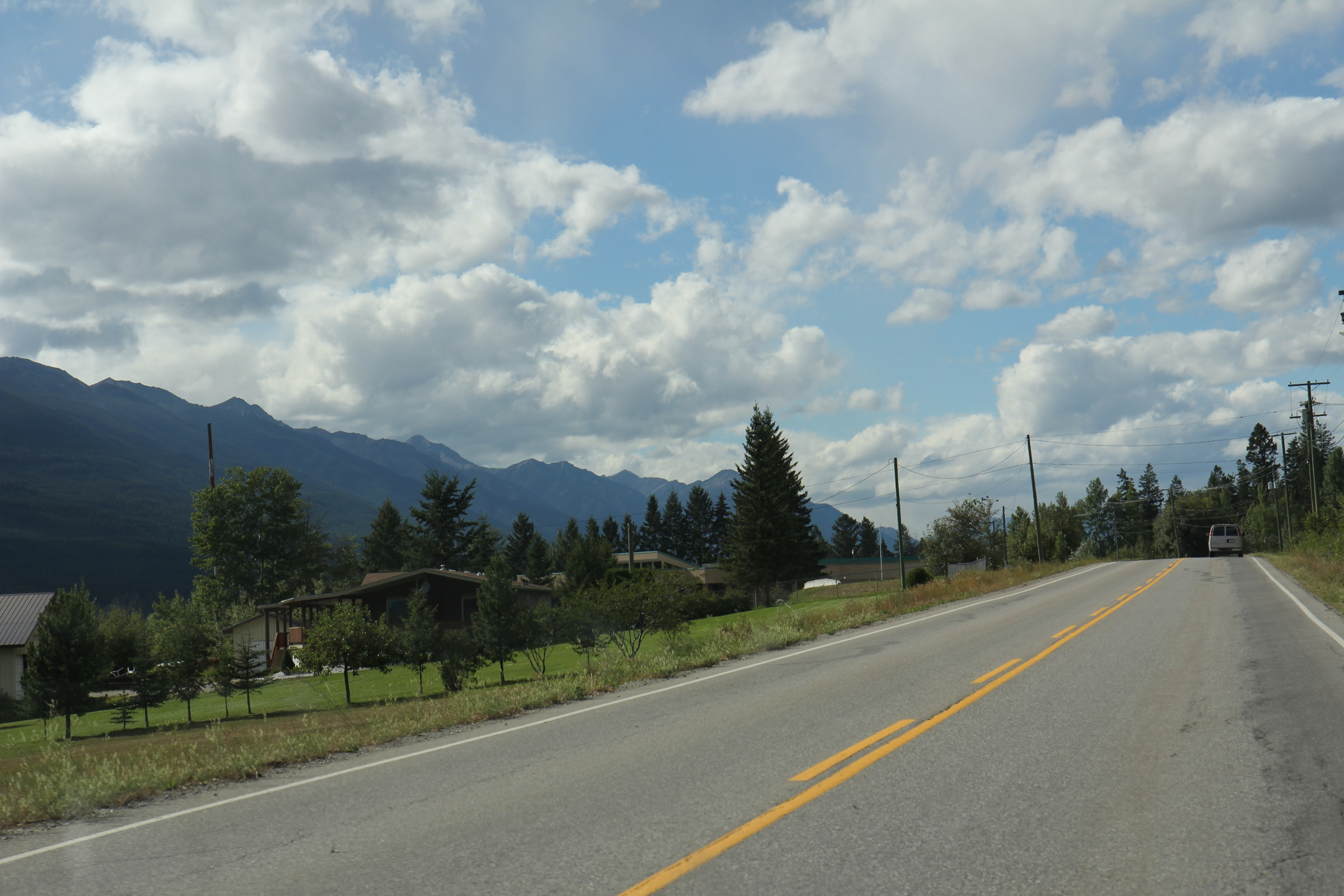 Looking northwest at some buildings in Parson, British Columbia on British Columbia Highway 95.